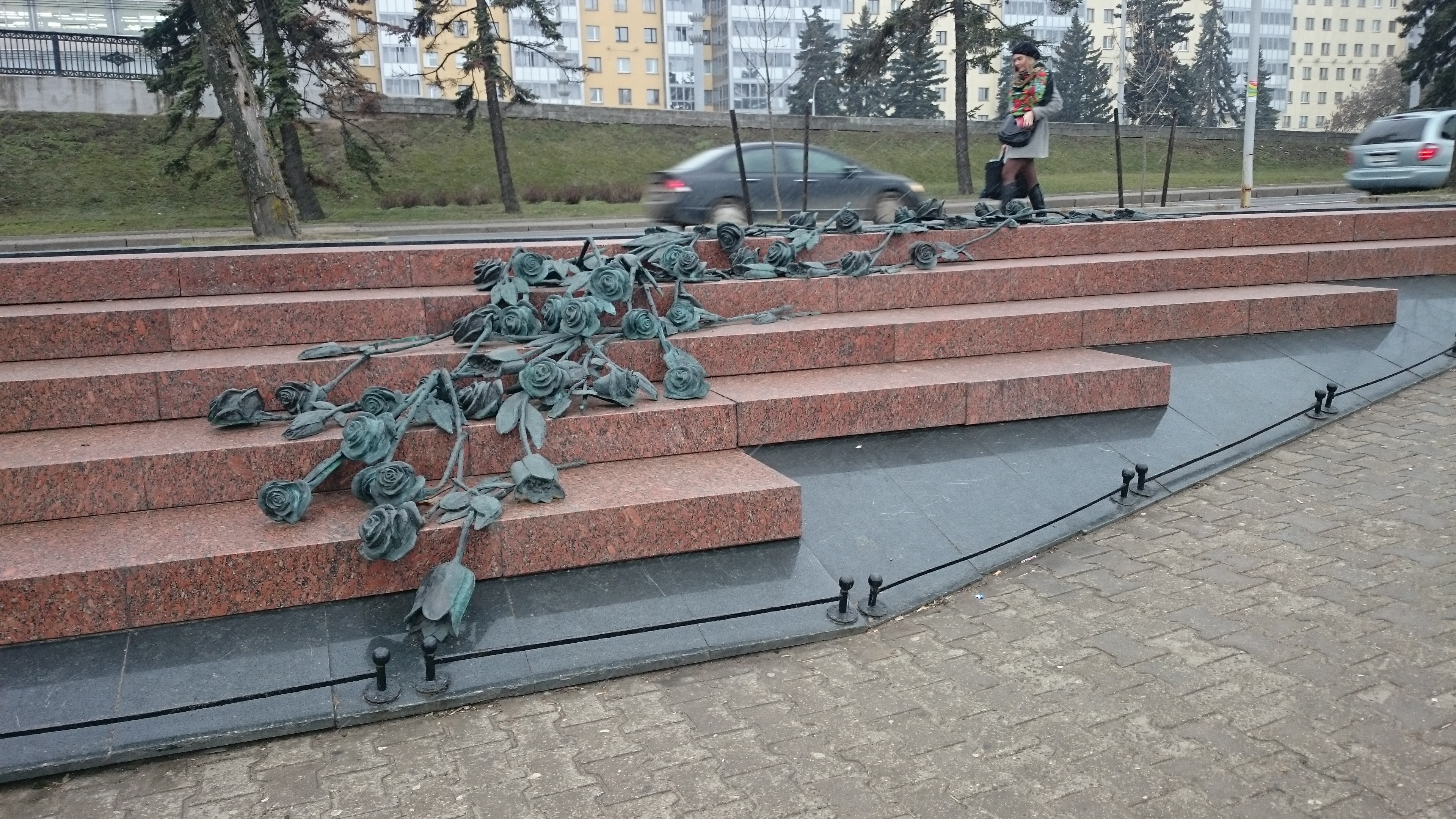 Monument at Niamiha metro station, memory of tragic events